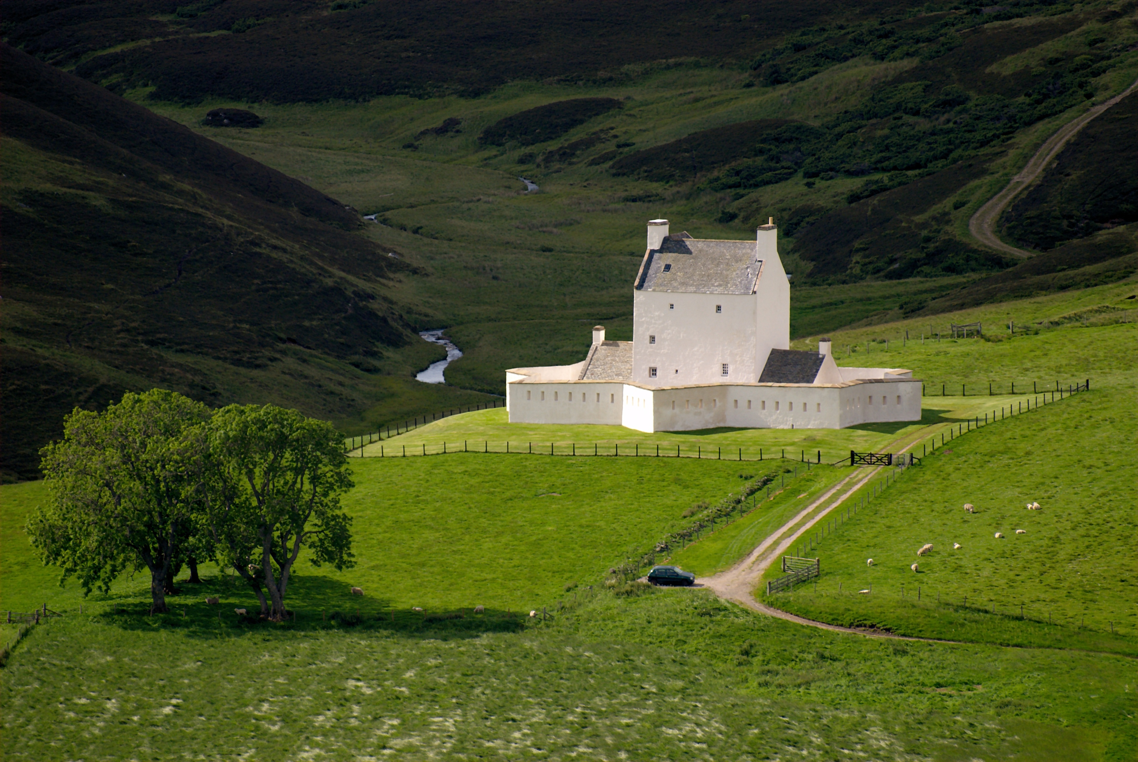 Corgarff Castle taken from the Lecht Road